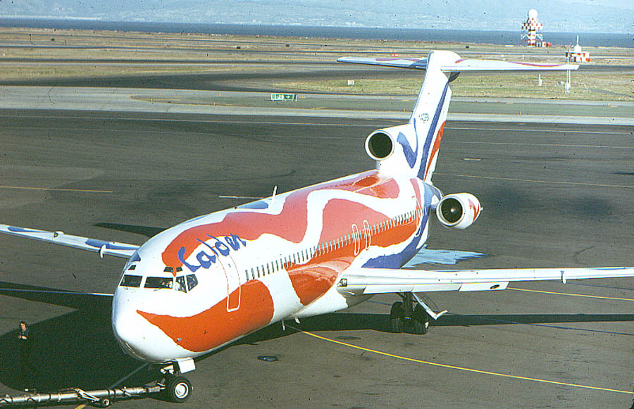 Braniff International's Boeing 727 (N408BN) with the dramatic Alexander Calder's Bi-Centennial Year paint scheme arriving at SFO in December 1975.